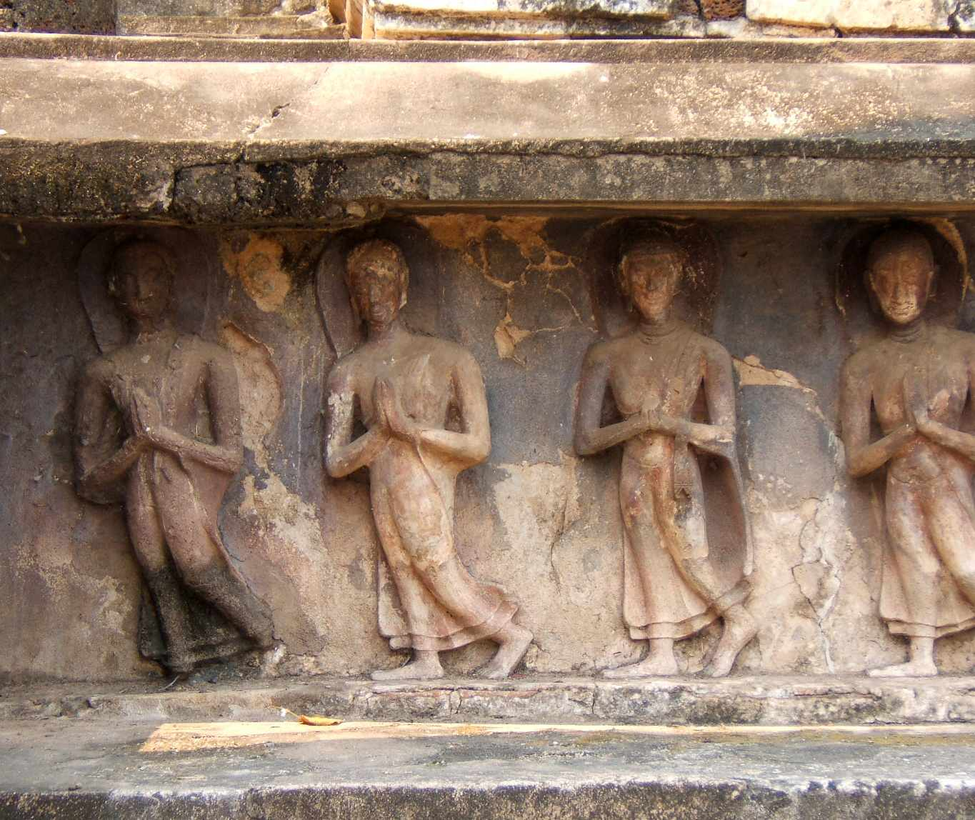 Prozession, Wat Mahathat, Sukhothai, Thailand